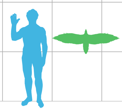 Size pf the Mesozoic bird Sapeornis chaoyangensis compared with a human